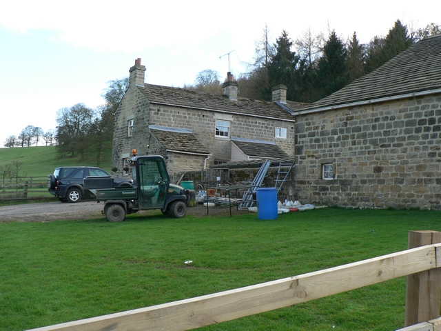 Carr House, Harewood Estate Between Stub House Plantation and Carr Wood